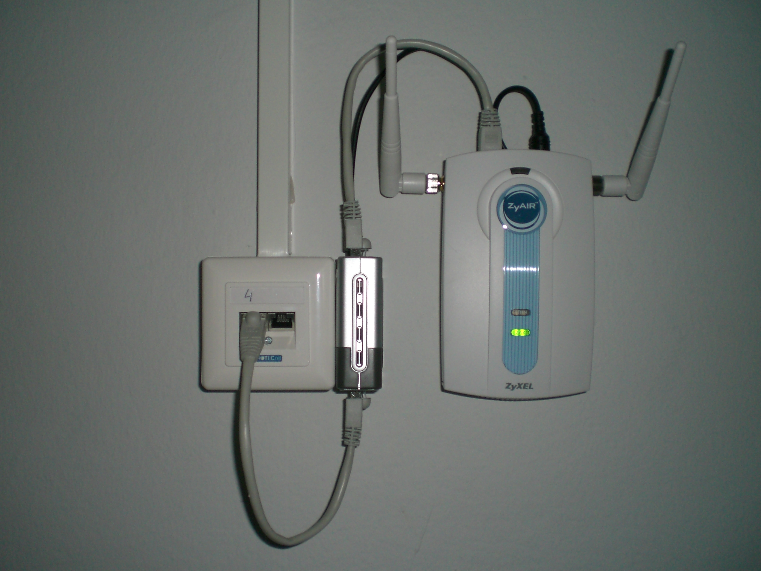 Image form a ZyXEL ZyAIR G-1000 Acces Point, powered by a D-Link DWL-P50 PoE-Splitter